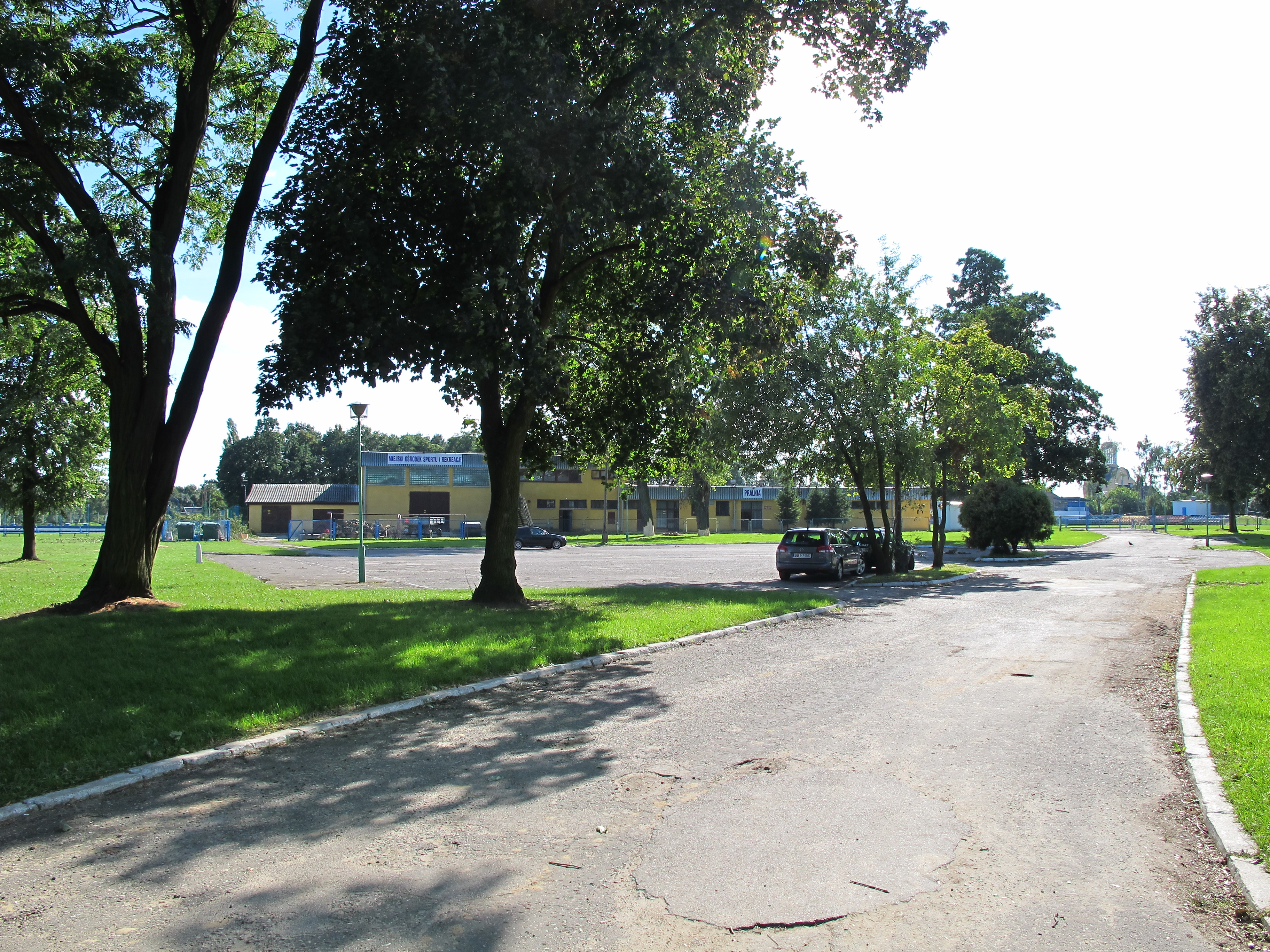 Sport and recreation town centre by E. Orzeszkowej 19 street in Bielsk Podlaski, Poland